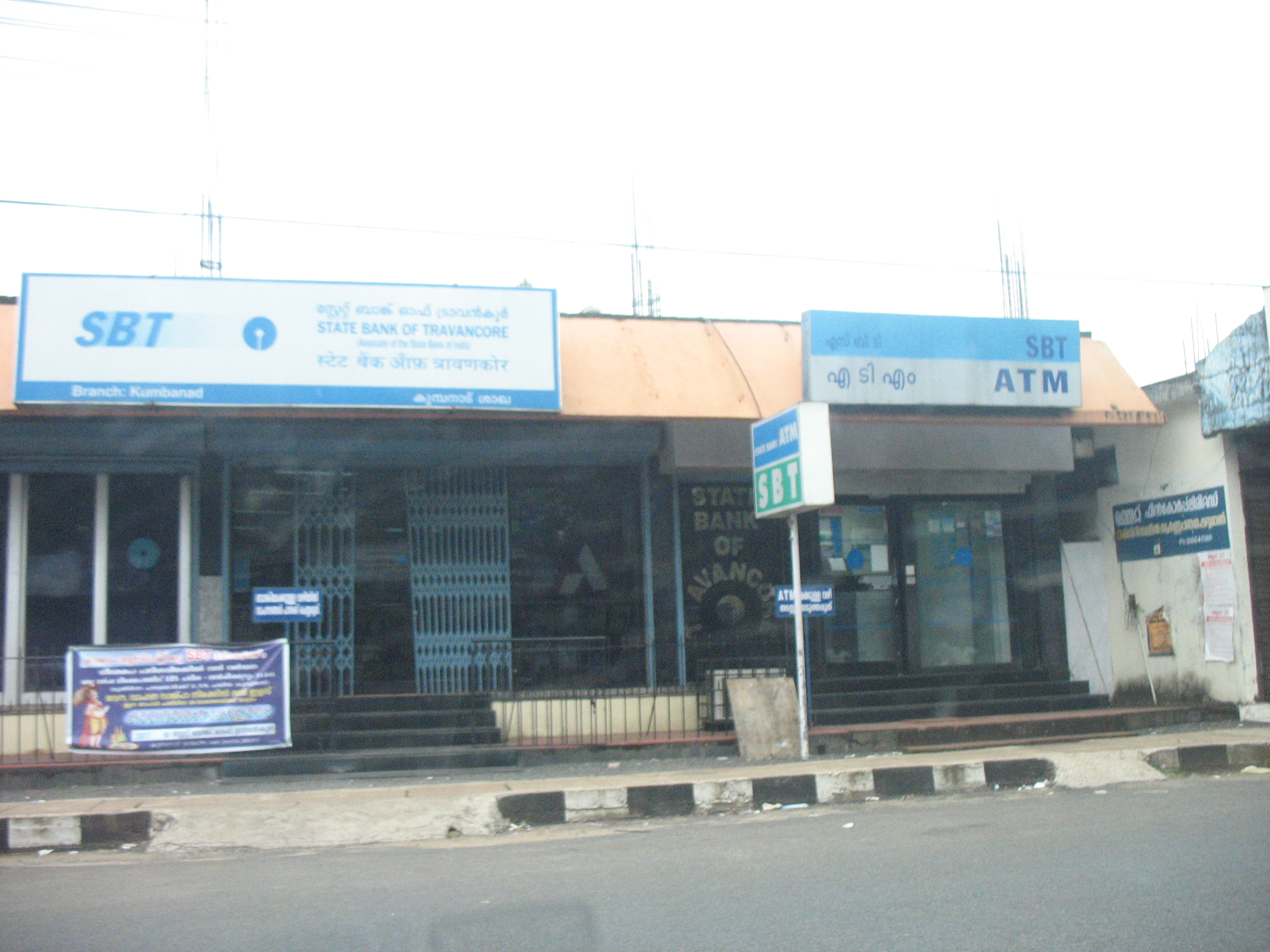 ATM